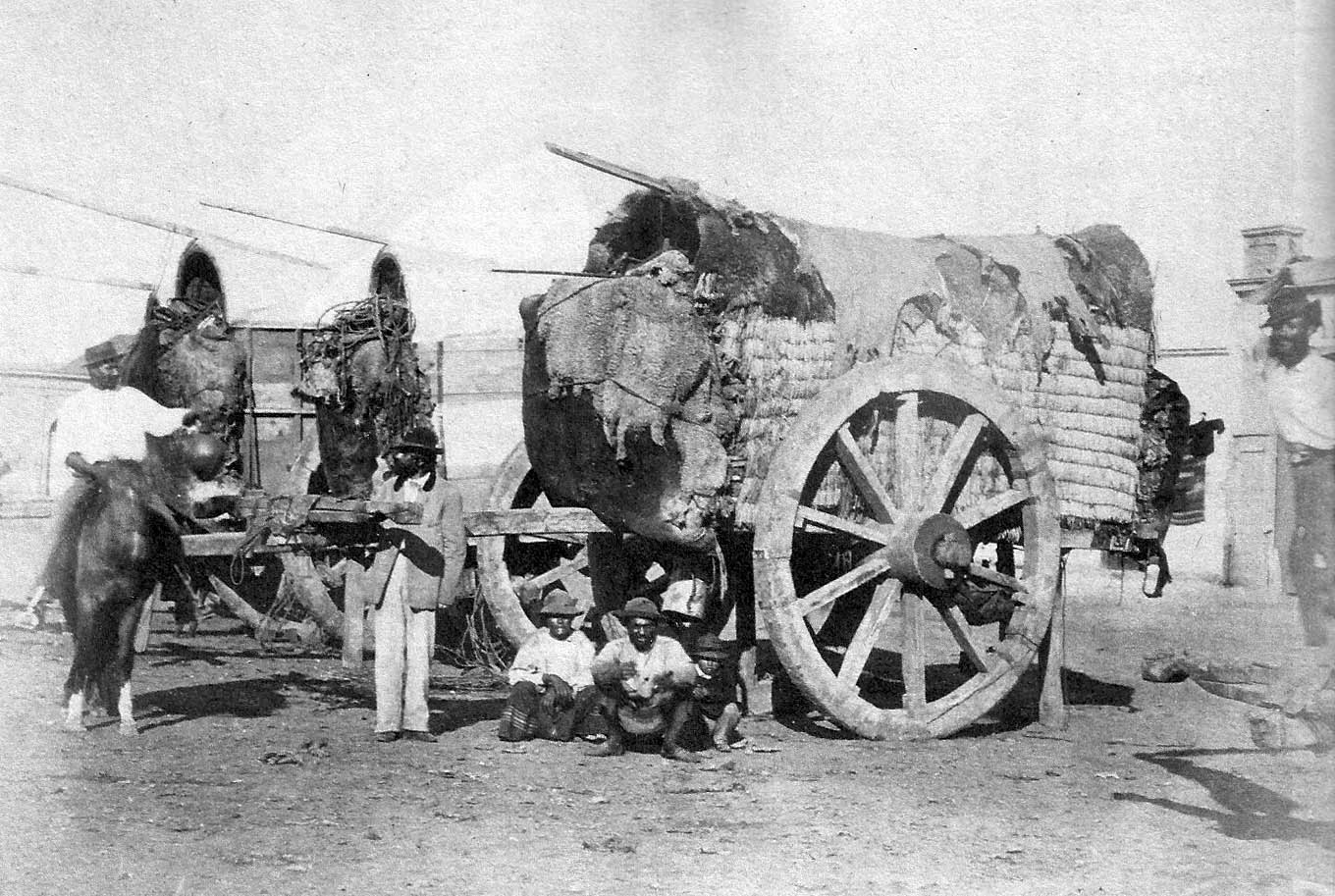 Workers and their "carretas" (a type of horse-drawn cart that was the vehicle used by the transport of goods in those times). Their wheels were made of wood and iron and the roof covered with leather. Carretas were also used to deliver mail, covering the long distances of the Argentine territory. The photo was taking at the Constitución market in Buenos Aires.